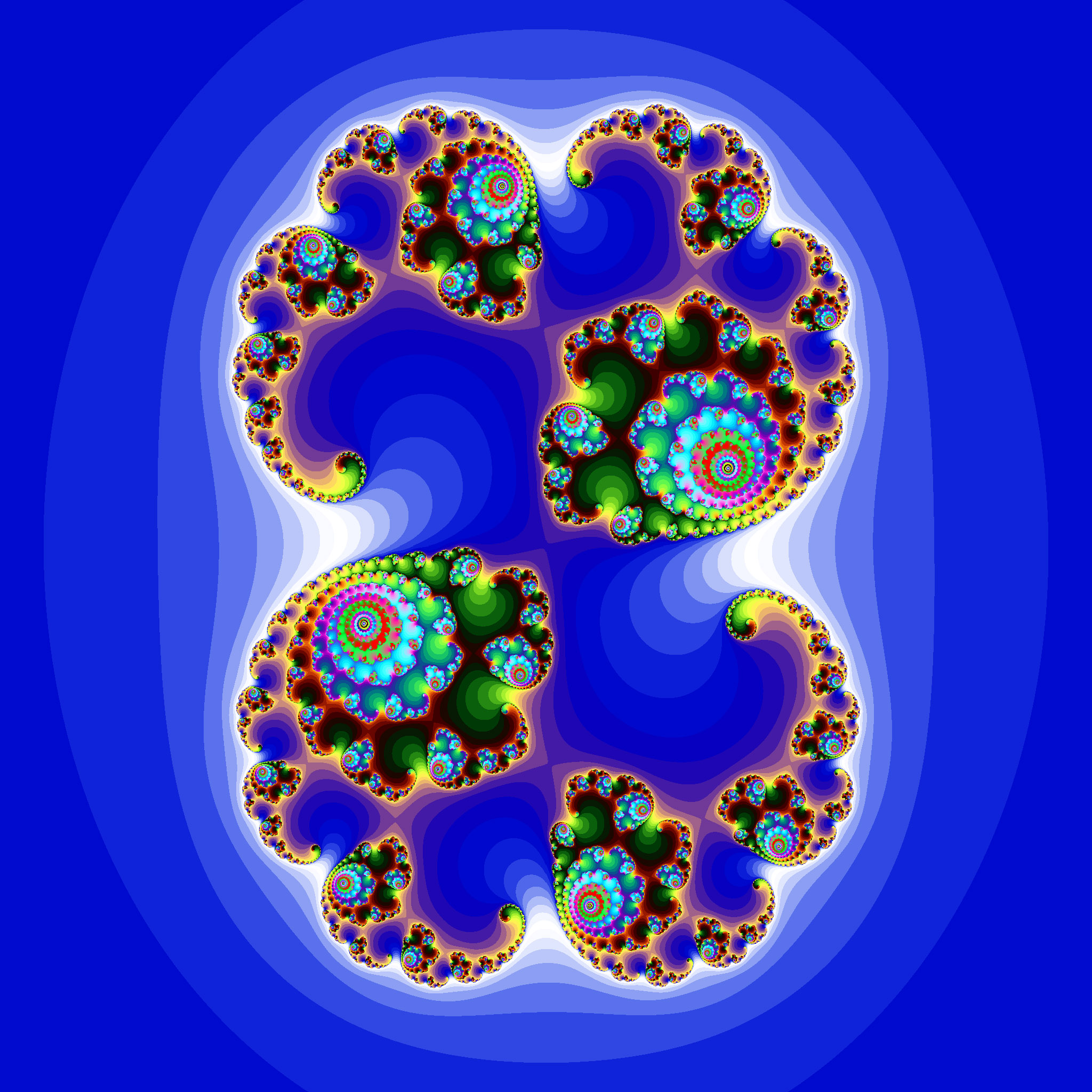 Julia set, a fractal. C = [0.285, 0.01]. From a self-written tool I named "Julia dream" (after the Pink Floyd tune carrying the same title).